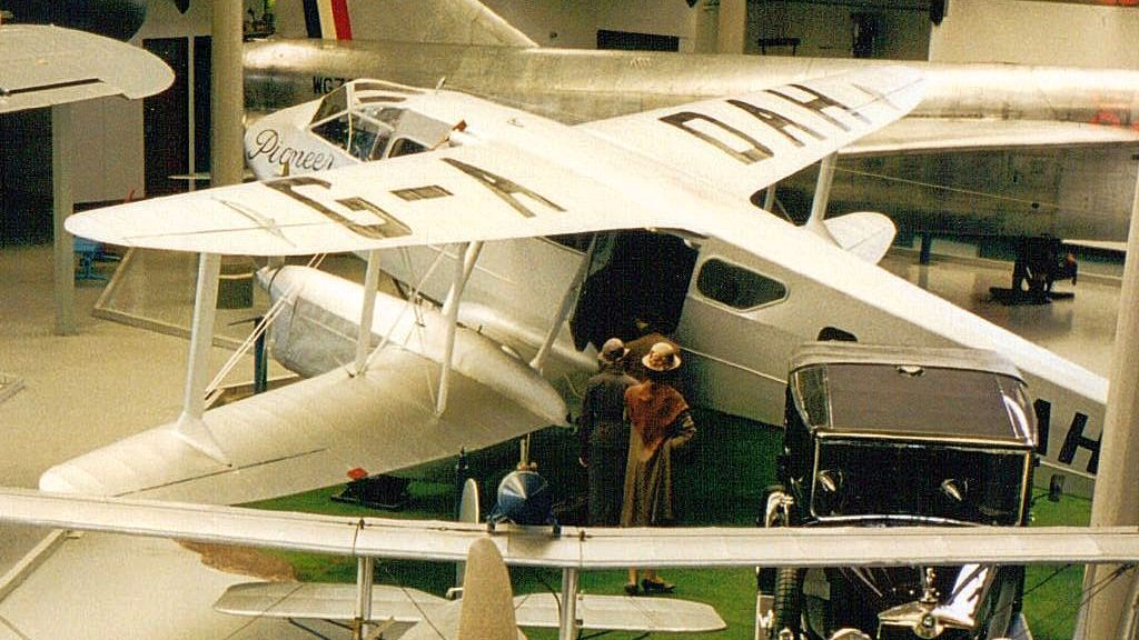 De Havilland DH.89 Dragon Rapide G-ADAH in the markings of Allied Airways (Gandar Dower) Ltd It served the airline and its owner, Eric Gandar Dower, from 1938 to 1959. Photo taken at the Museum of Science and Industry in Manchester in 1998. The aircraft s is still there in 2020